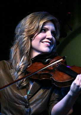 A portrait oriented rectangle crop of File:Alison Krauss MerleFest 2007 01.jpg for use in the featured biography section of Portal:United States, which works best with images of that shape.